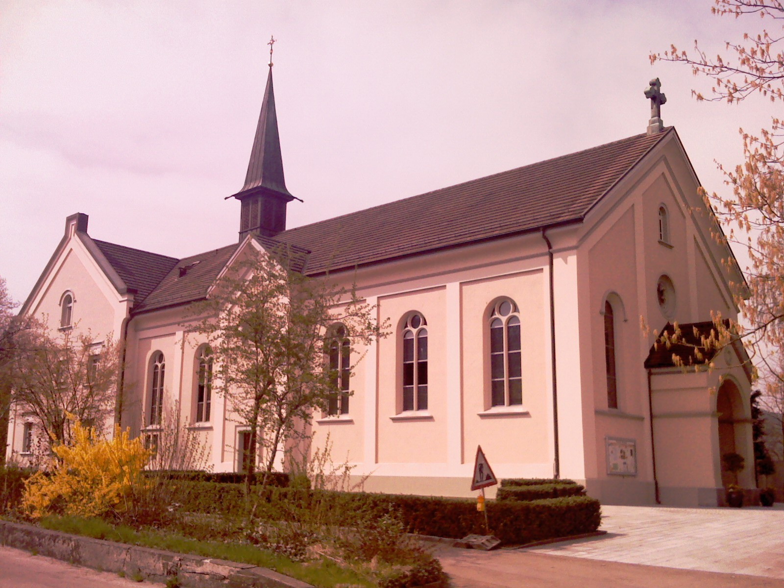 Church of Pfungen, Canton Zürich, SwitzerlandEsperanto: Preĝejo de Pfungen, Kantono Zuriko, Svislando